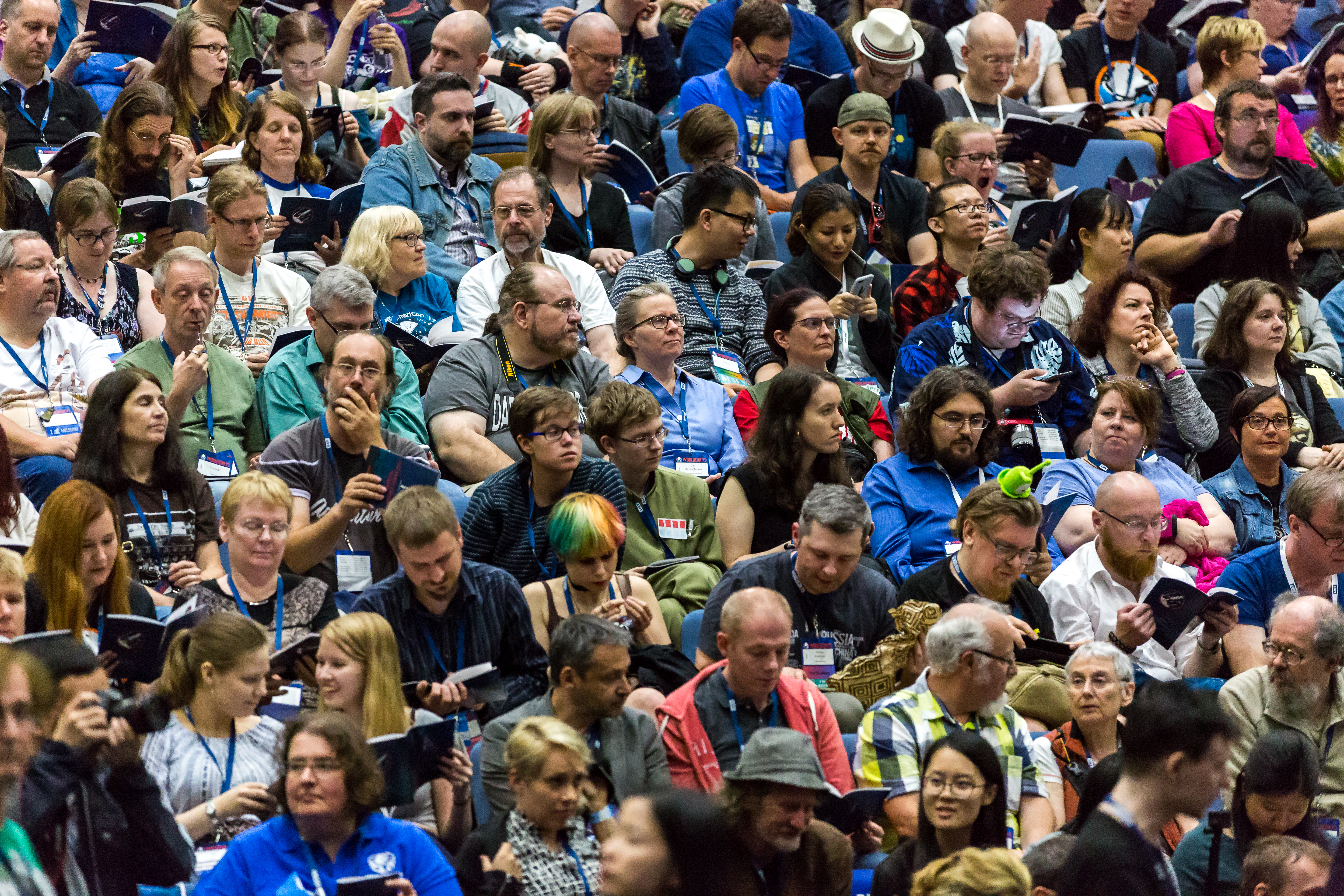 Audience waiting for the Hugo Award Ceremony at Worldcon 75 in Helsinki.